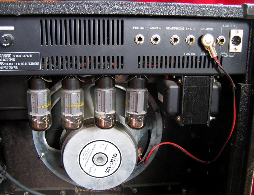 Illustrating back of Roland guitar amplifier